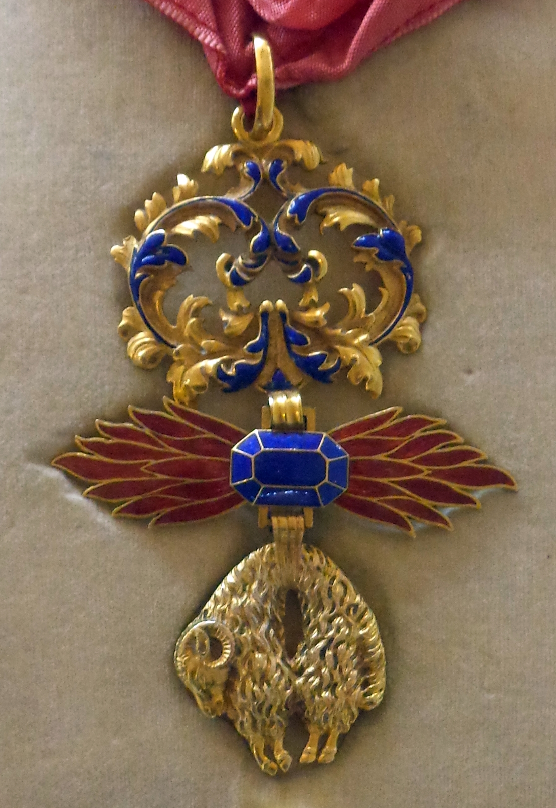 Order of the Golden Fleece, badge, c.1906. Spain. The exhibition of the Tallinn Museum of Orders of Knighthood, Estonia.